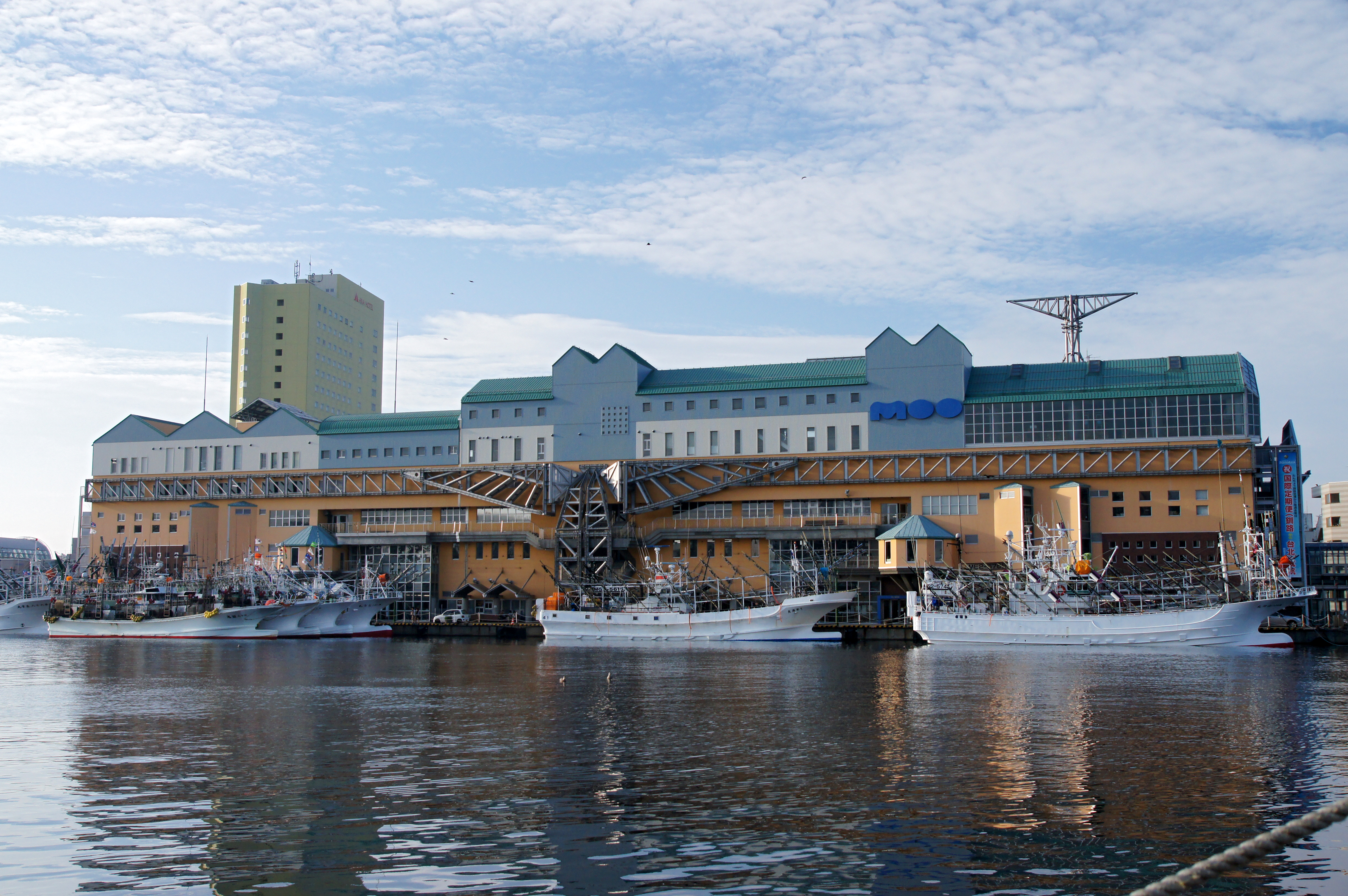 Kushiro Fisherman's Wharf MOO in Kushiro City, Hokkaido prefecture, Japan